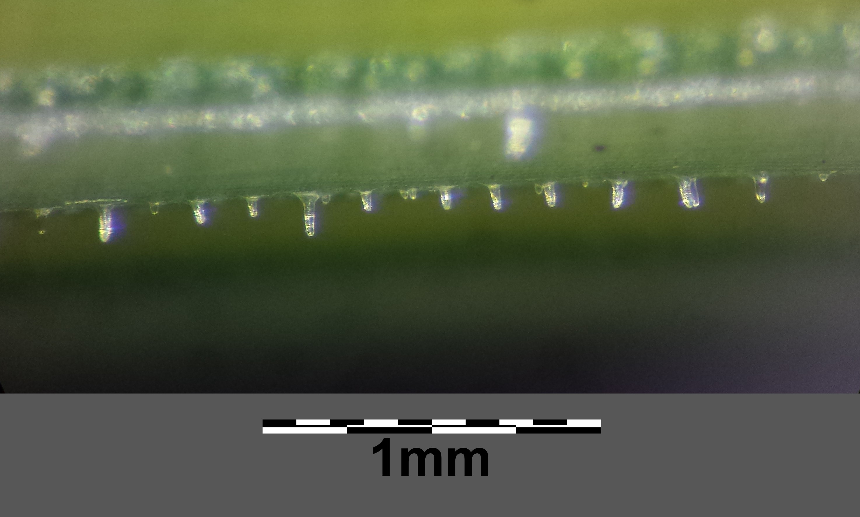 Surface of stem with papilla Taxonym: Equisetum sylvaticum ss Fischer et al. EfÖLS 2008 ISBN 978-3-85474-187-9 Location: nearby Riebeis, Rappottenstein, district Zwettl, Lower Austria - ca. 750 m a.s.l. Habitat: wood